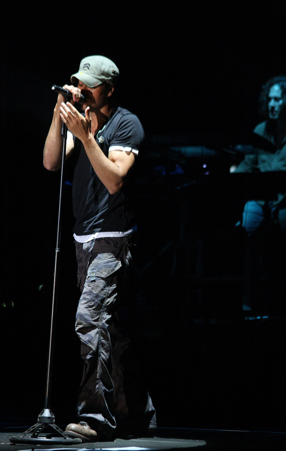 Enrique Iglesias in Concert.